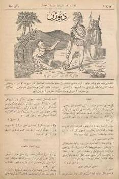 First edition of the first volume of the journal Diyojen